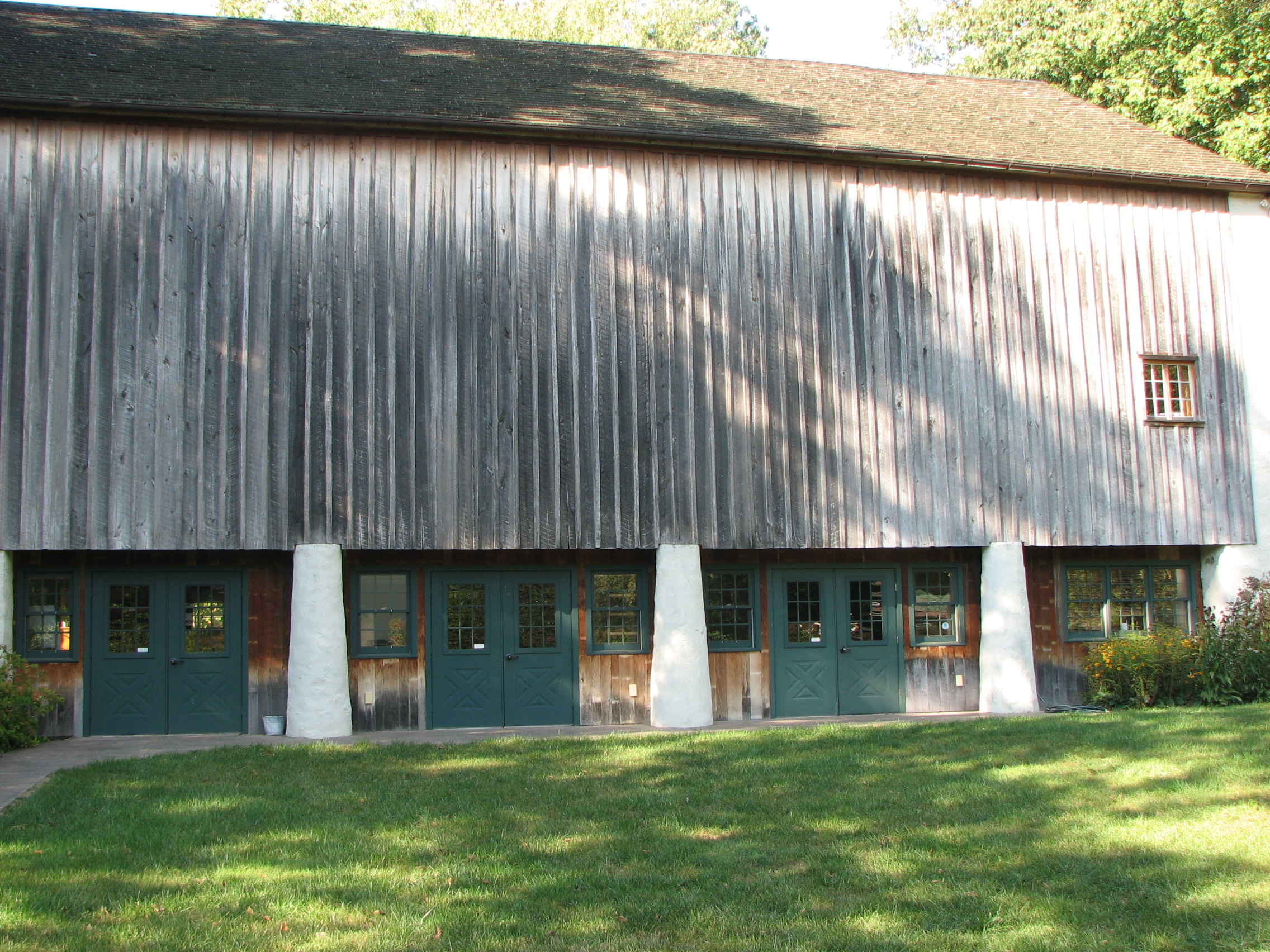 Visitor center at the Crow's Nest Preserve of the Natural Lands Trust, near Elverson, Pennsylvania. The barn is part of the North Warwick Historic and Archaeological District, on the National Register of Historic Places.